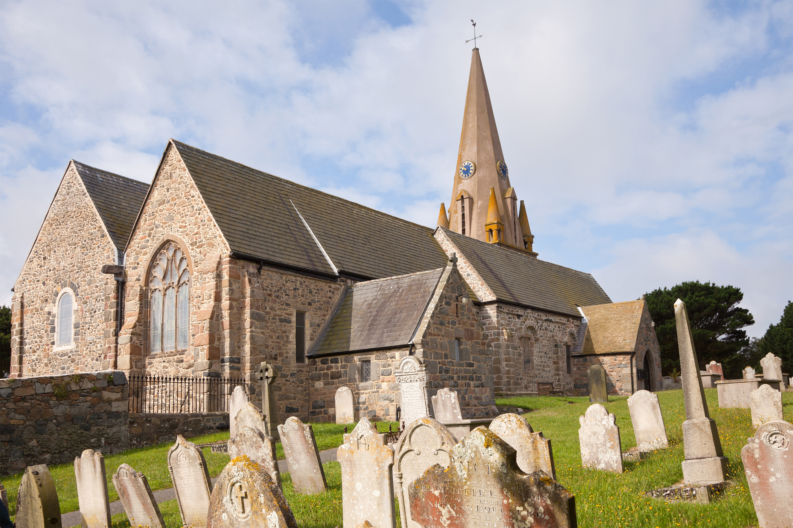 The Ste. Marie du Castel Parish Church, Guernsey